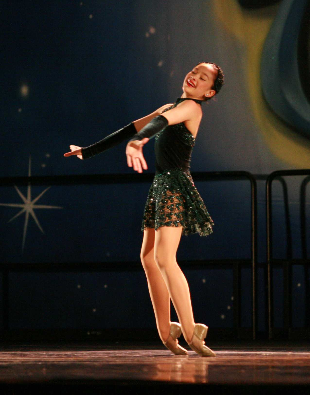 In this toe rise, the dancer is rising from a kneeling position to a standing position on the tops of her feet. Performed by Daria L during Nevertheless, an acro dance choreographed by Creslynn Morris.